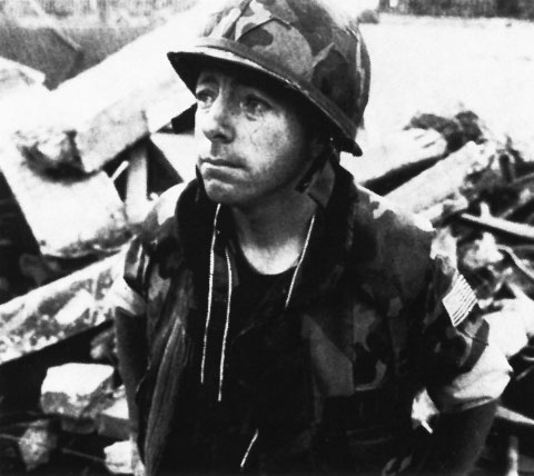 Photo of Catholic priest and U.S. Navy Chaplain (Fr.) George Pucciarelli, taken in Beirut, Lebanon. Pucciarelli was stationed with a Marine Amphibious Unit (MAU) as part of the U.S. contingent of the International Peacekeeping Force, and was present on Oct 23, 1983, when a suicide bomber drove his truck into one of the two buildings used as U.S. Marine Corps barracks, killing 241 U.S. military personnel and wounding 60 others.